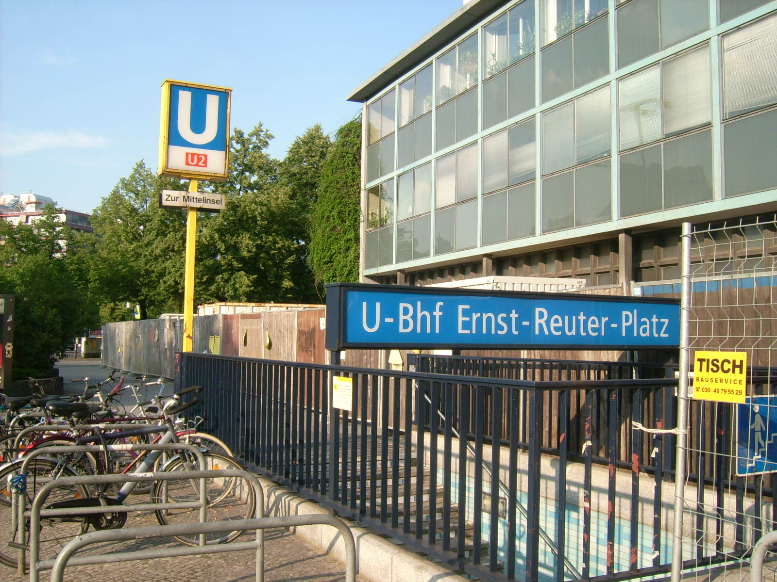 the Berlin U-Bahn station Ernst-Reuter-Platz, line U2